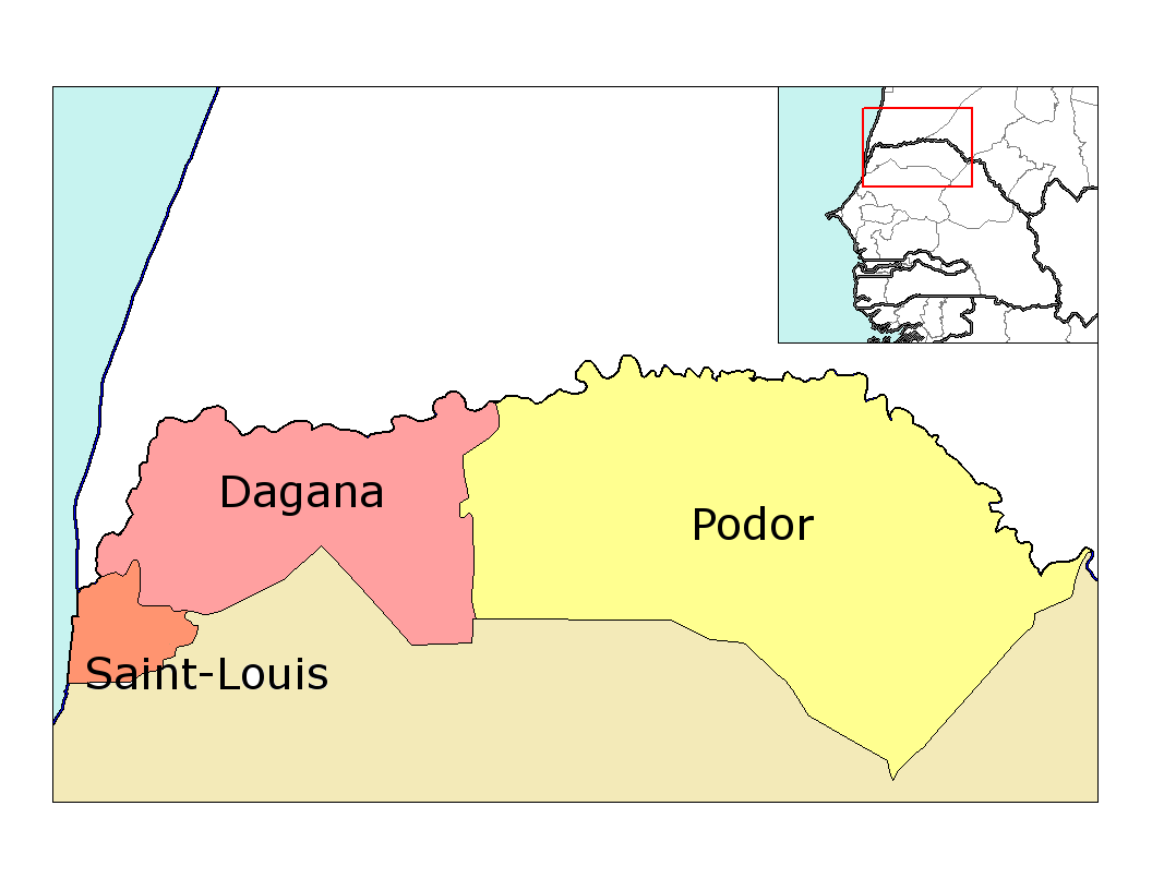 Map of the departments of Saint-Louis region in Senegal. Created by Rarelibra 22:31, 28 December 2006 (UTC) for public domain use, using MapInfo Professional v8.5 and various mapping resources.